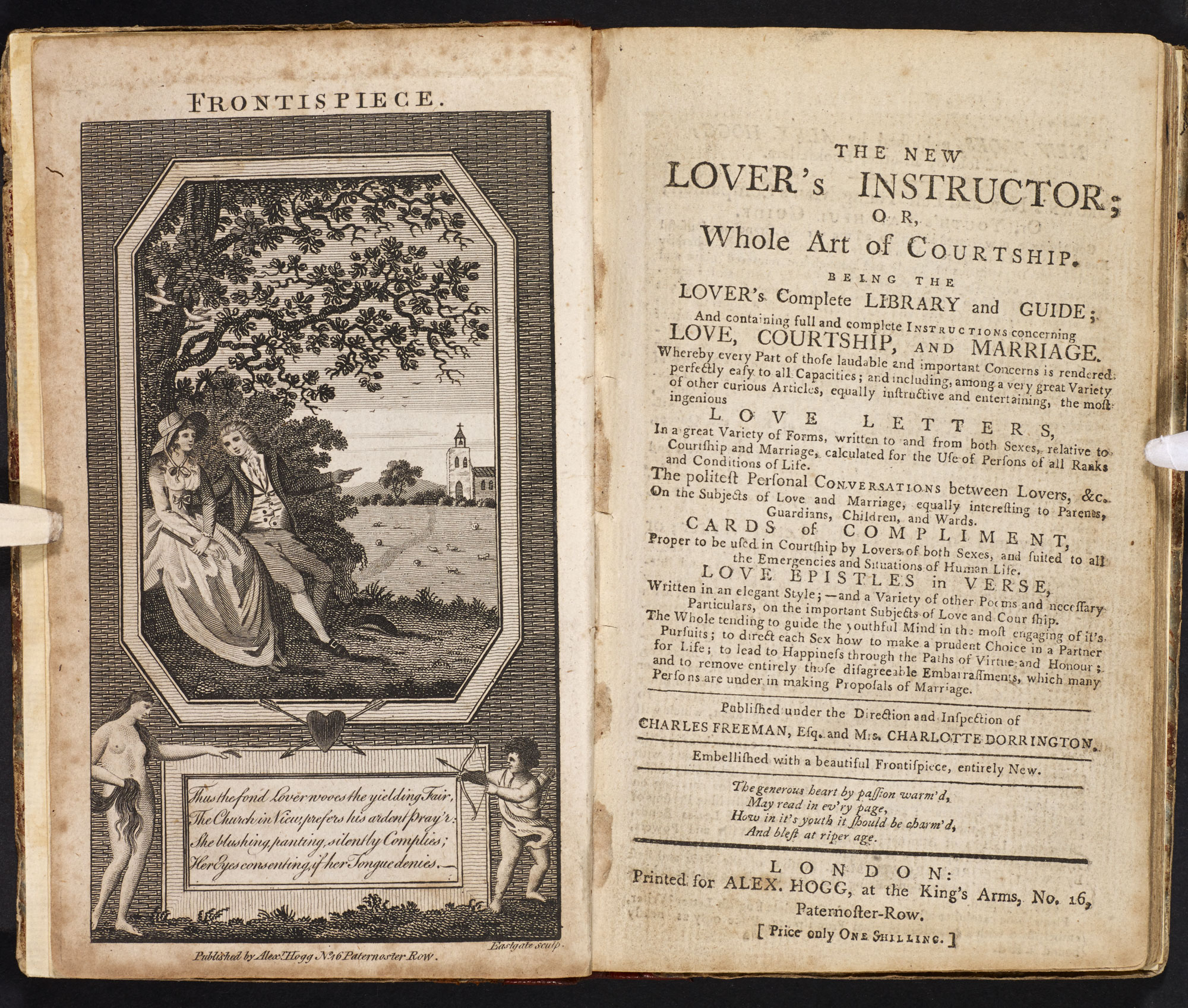 first pages of the book "The New Lover’s Instructor"